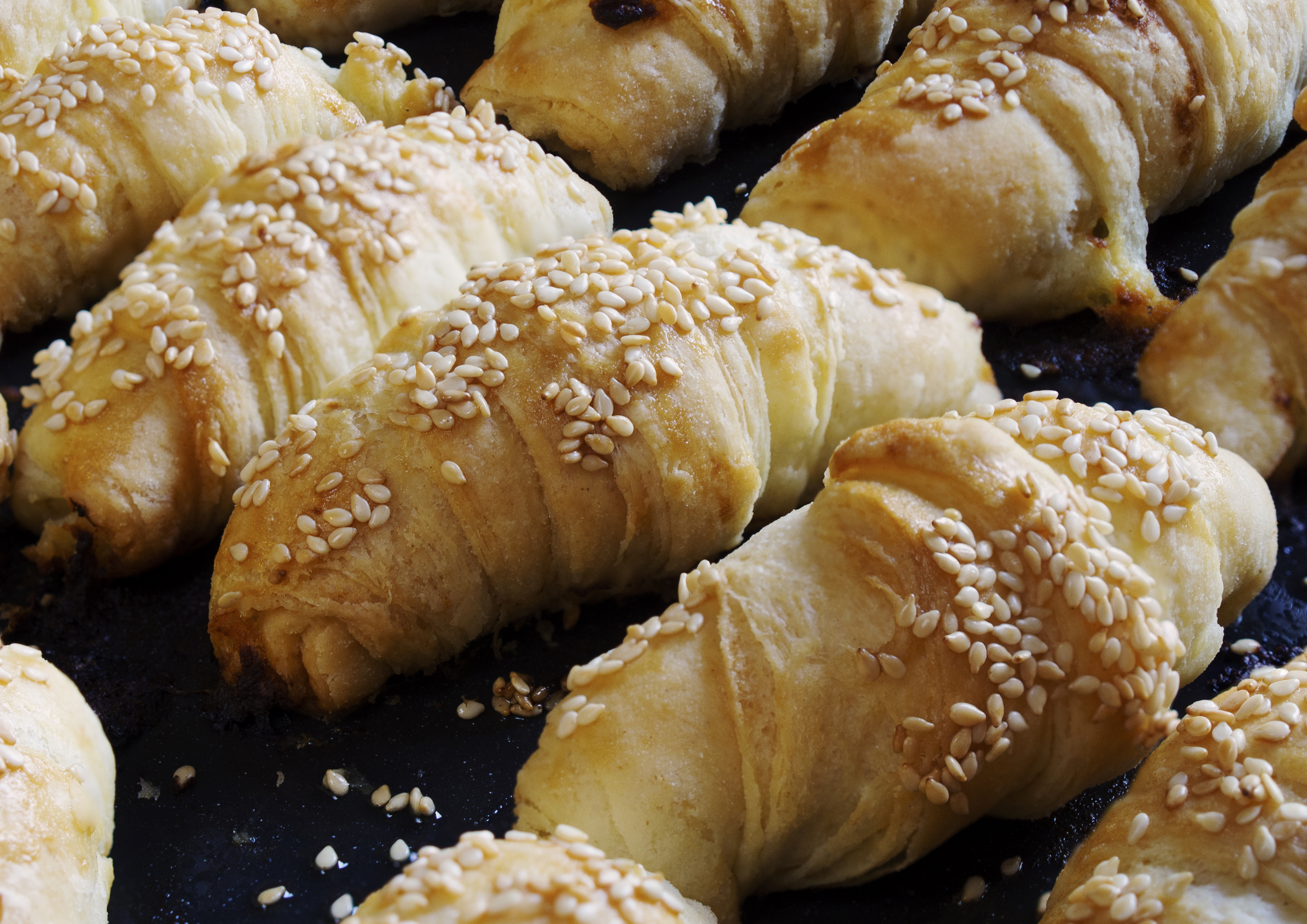 Kifli of Serbian and Macedonian cousine. Made with wheat flourСрпски (ћирилица): Кифле са сиром и сезамом.Рађено са пшеничним брашном.